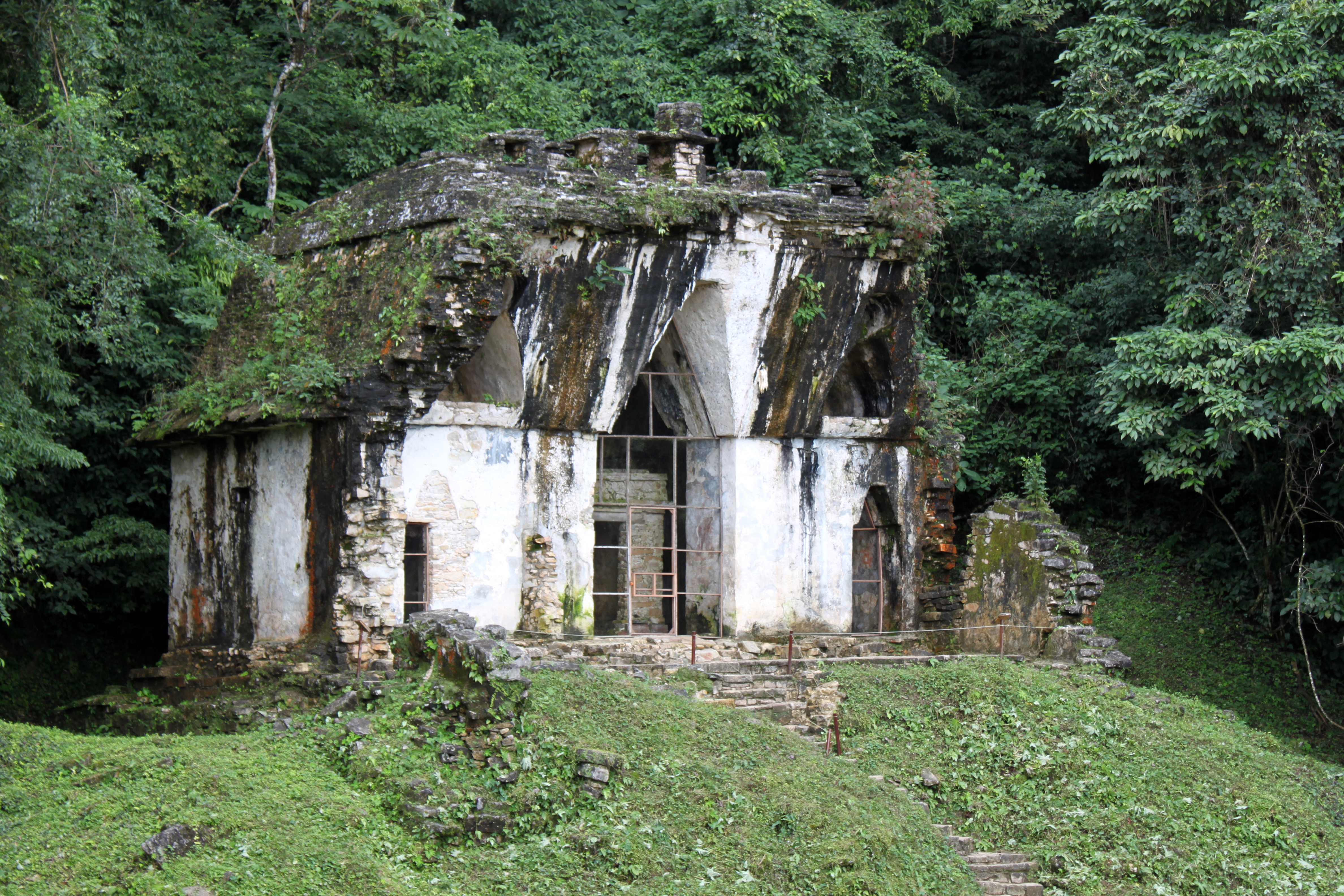 Palenque (Chiapas, Mexico), Temples of the Cross Group, Temple of the Foliated Cross